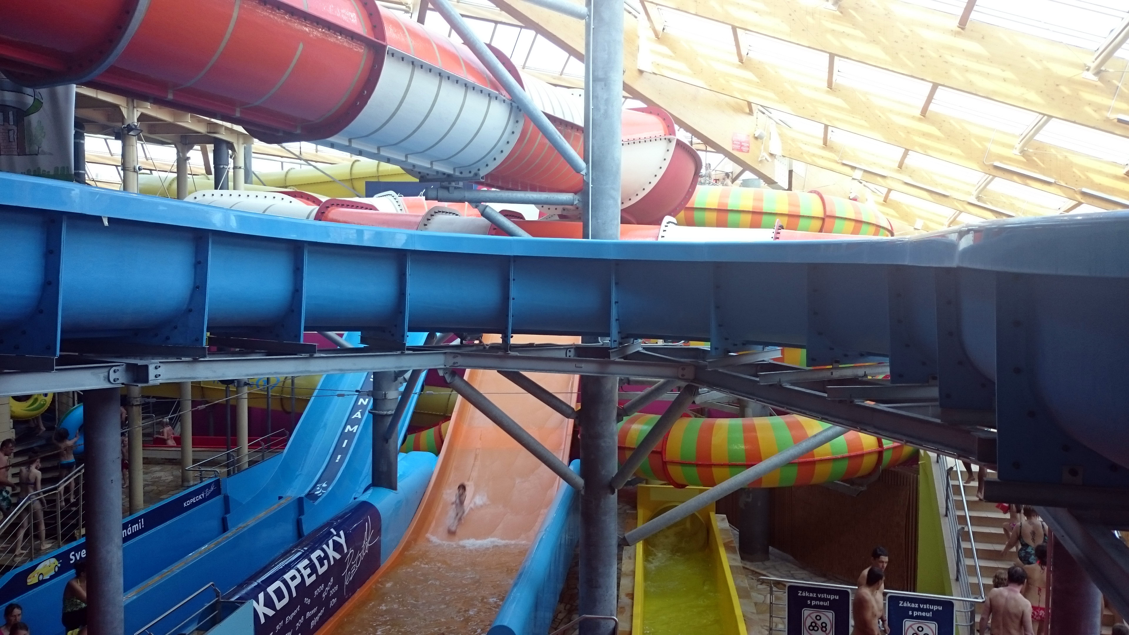 Interior of Aquapalace Praha in 2016 (Palace of Adventures).